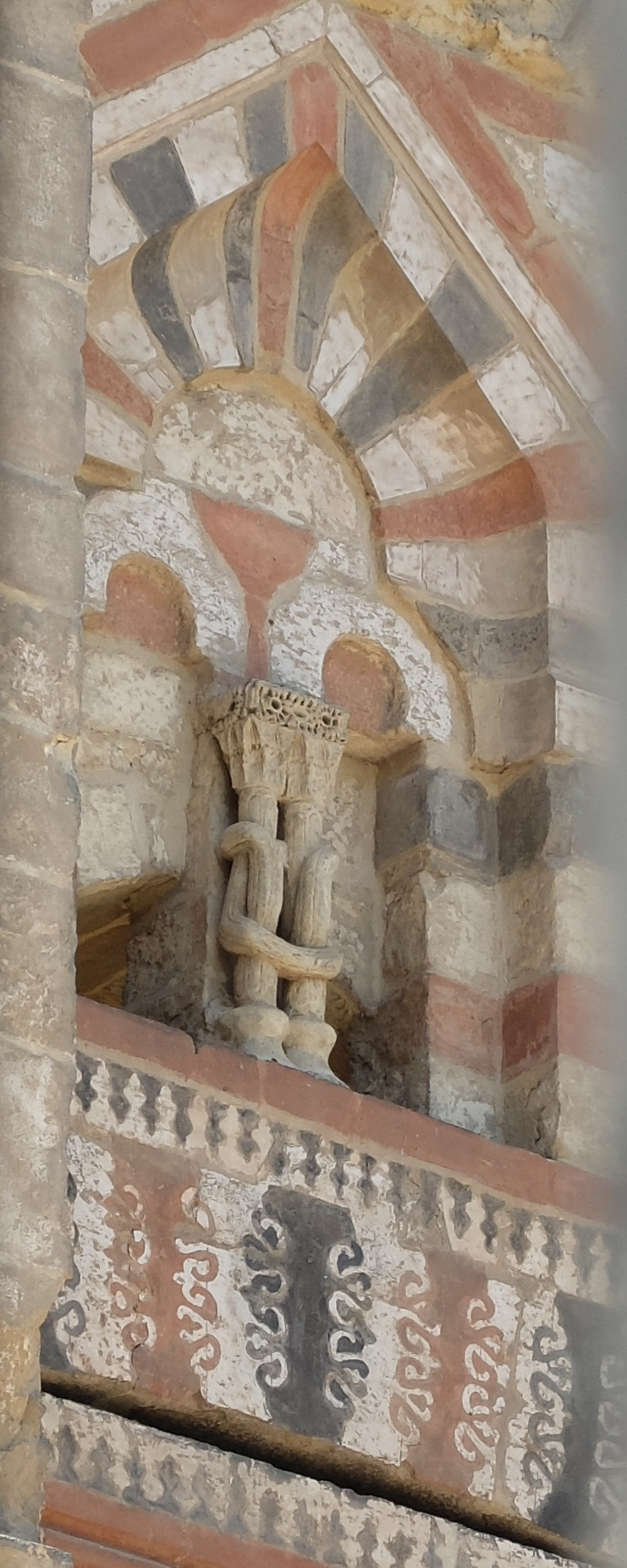 The window opening above the entrance of the Maristan of Sultan al-Mu'ayyad Sheikh (after recent restoration), with two small decorative columns with carvings that look like snakes: possibly a symbol of healing.